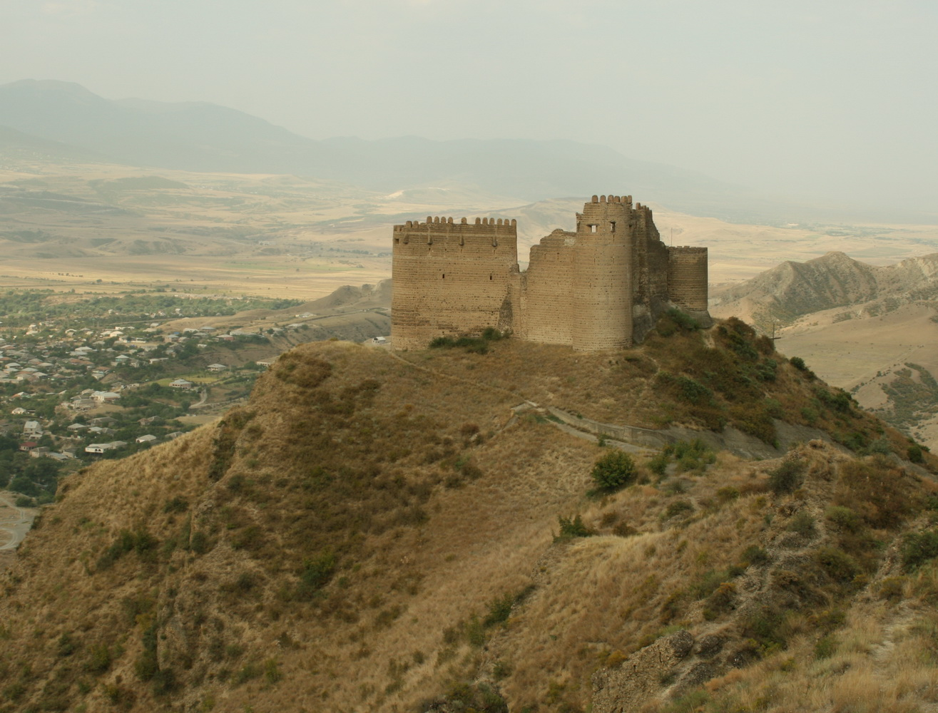 Ksani castle